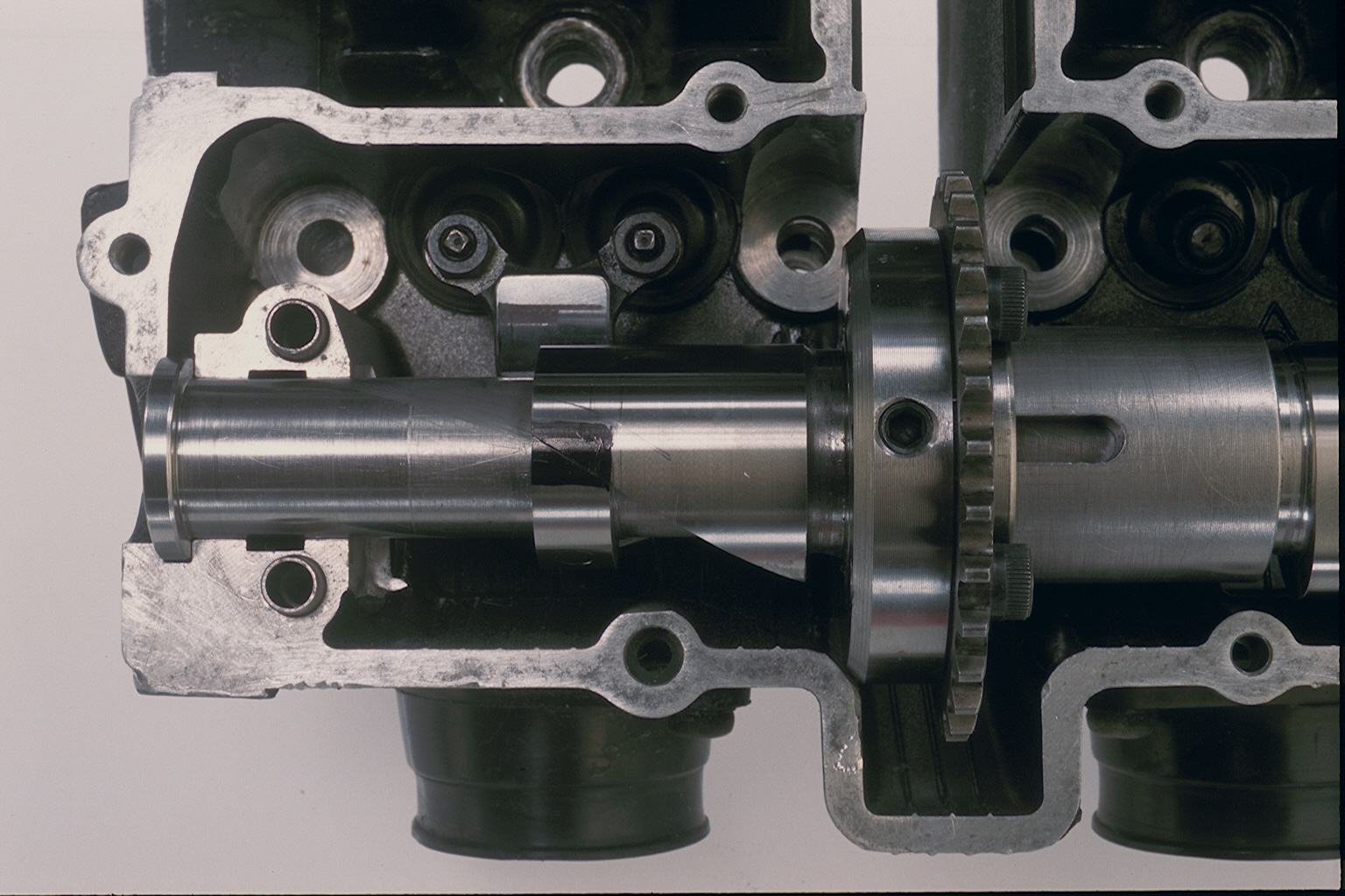 Suzuki GSX 250 helical camshaft. The cam is in the minimum duration position and is fitted to a head. The nose constant radius area is marked with black felt tip pen.